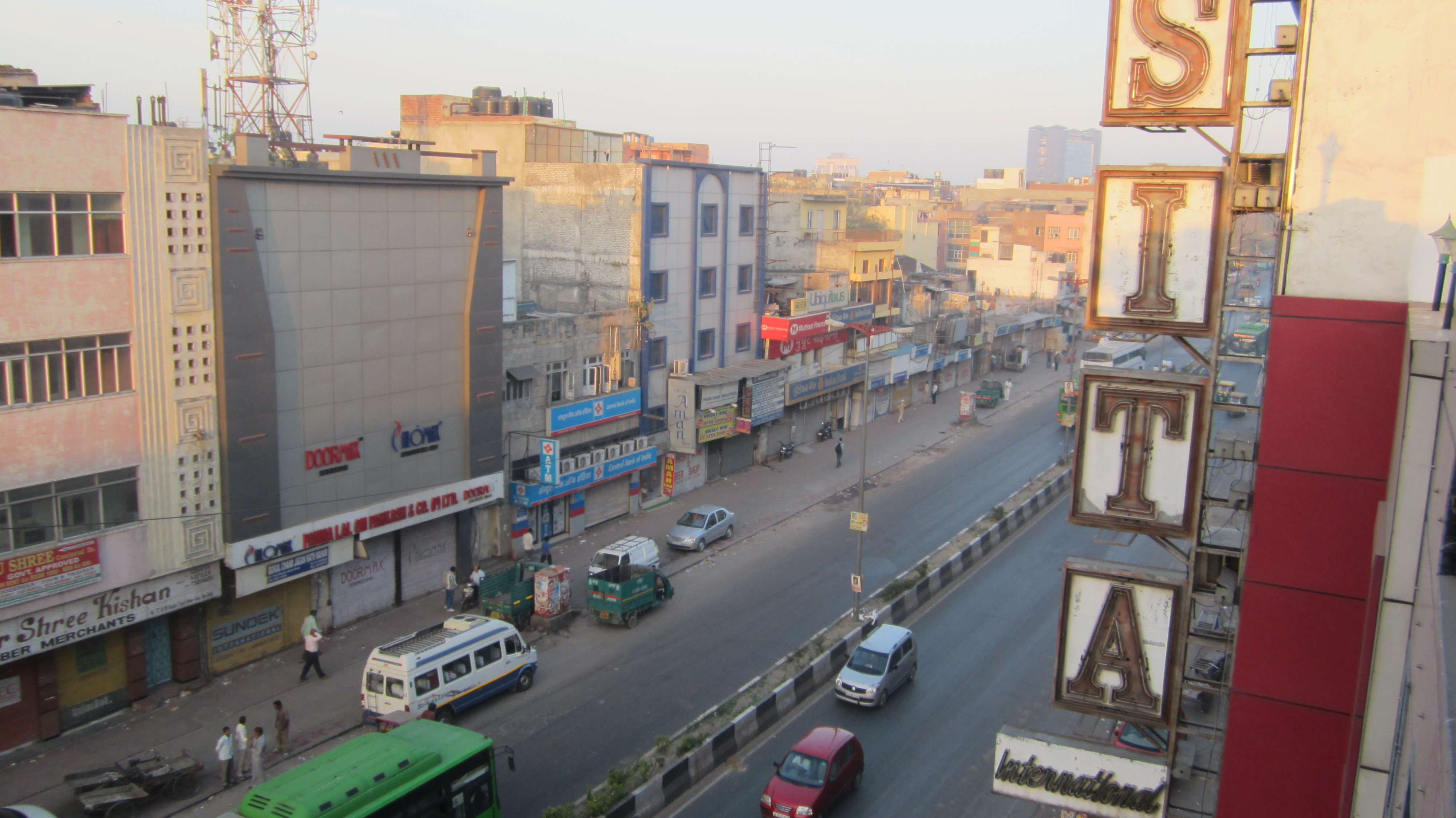 DB guptaroad in Paharganj Delhi, a morning view